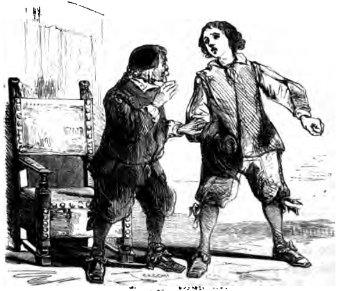 The most famous Italian historical romance,and the masterpiece of Alessandro Manzoni.